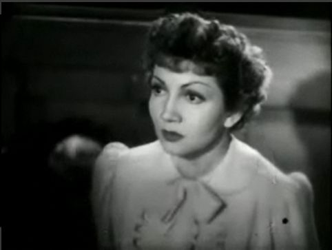 Screenshot of Claudette Colbert from the trailer for the film It's a Wonderful World